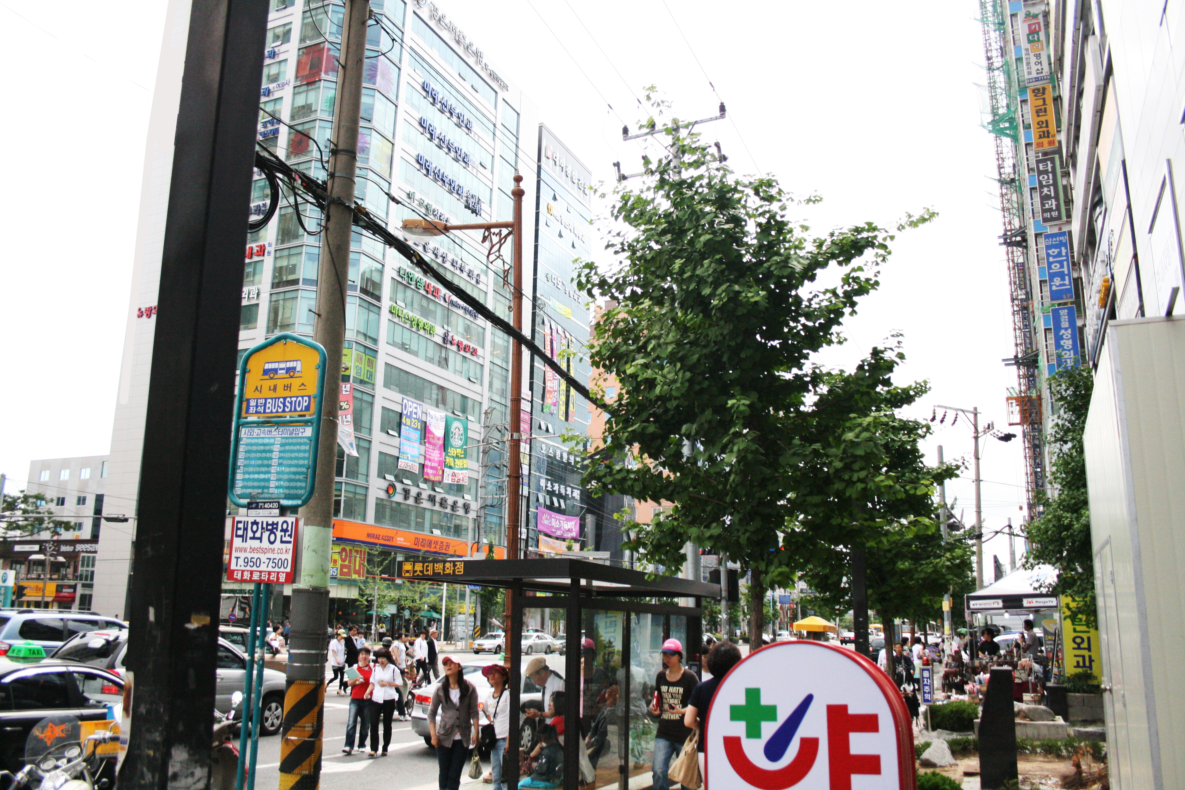 Downtown Ulsan